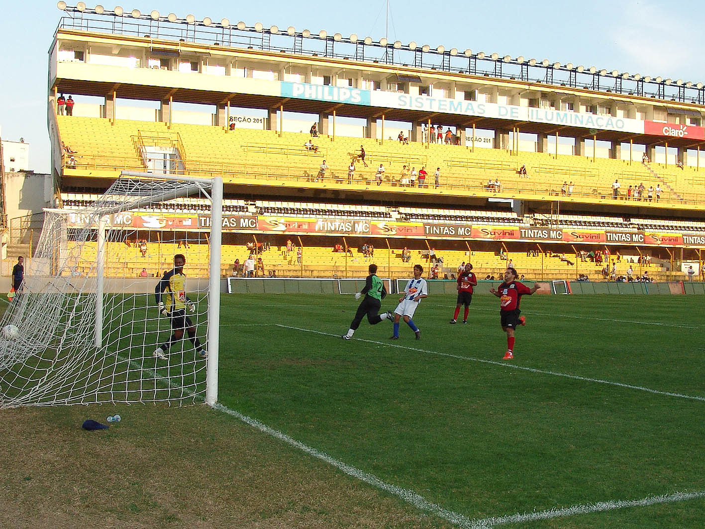 Charity game at Estádio Urbano Caldeira (also known as Estádio Vila Belmiro), in Santos, São Paulo, Brazil.